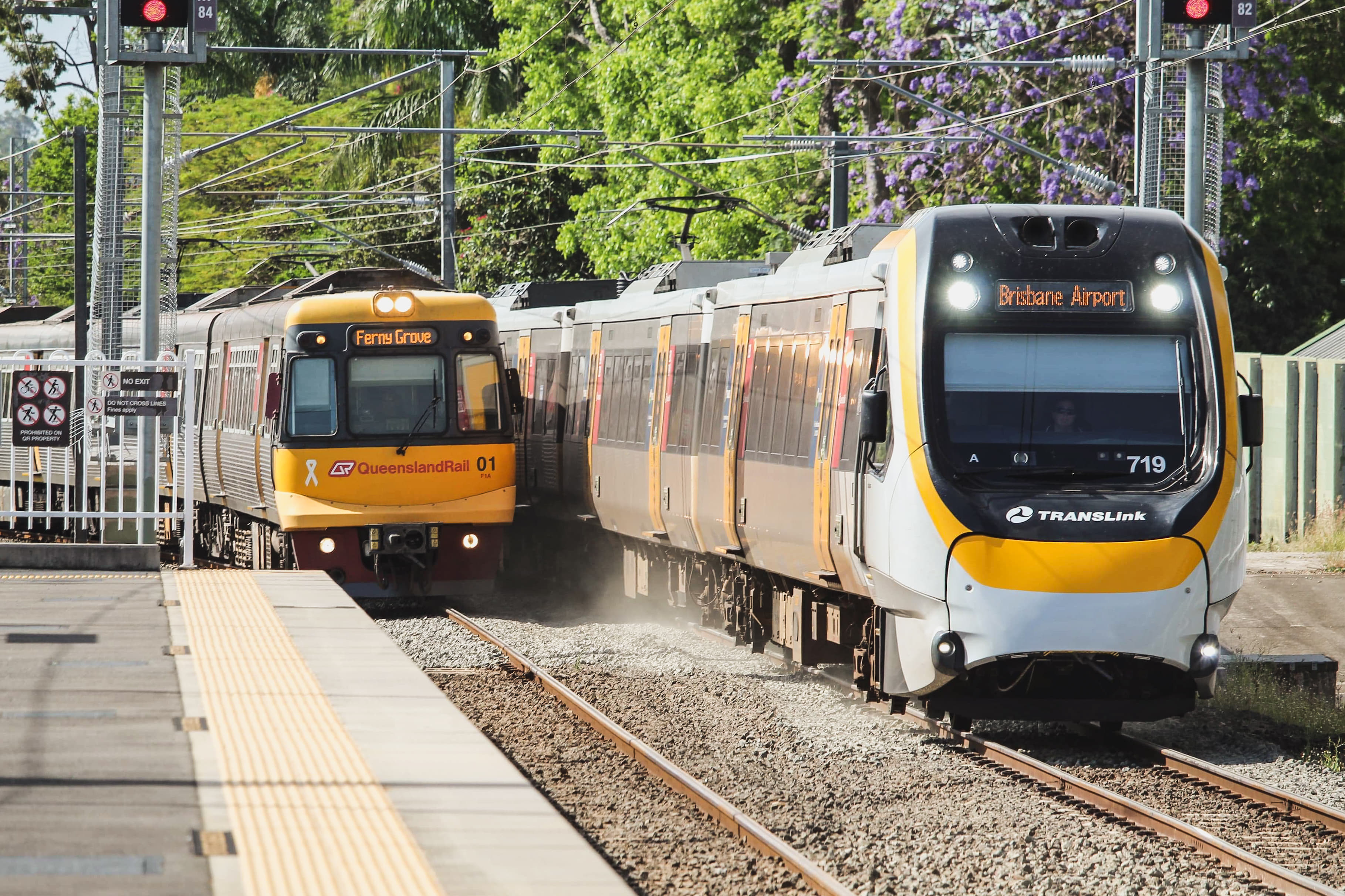 Oldest and newest QR unit at Altandi